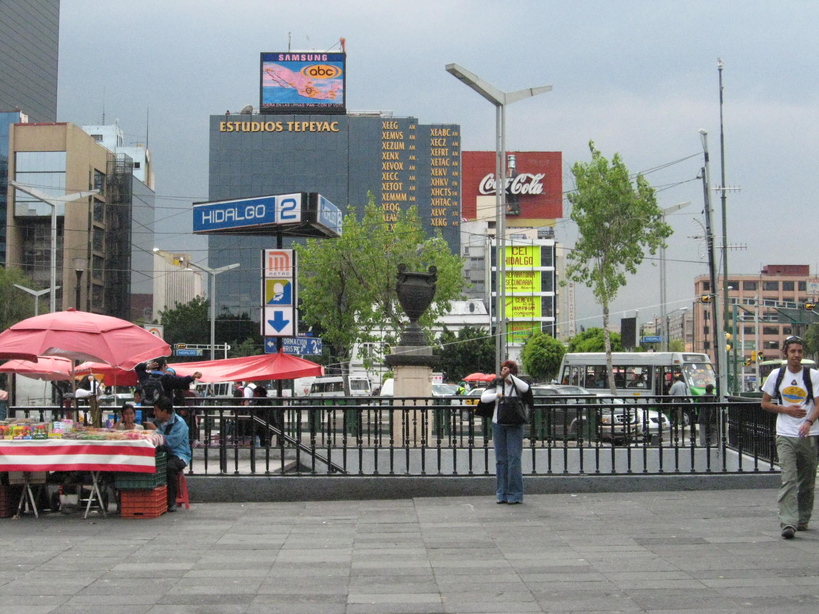 Entrance to the Line 2 section of Metro station Hidalgo of the Mexico City Metro system